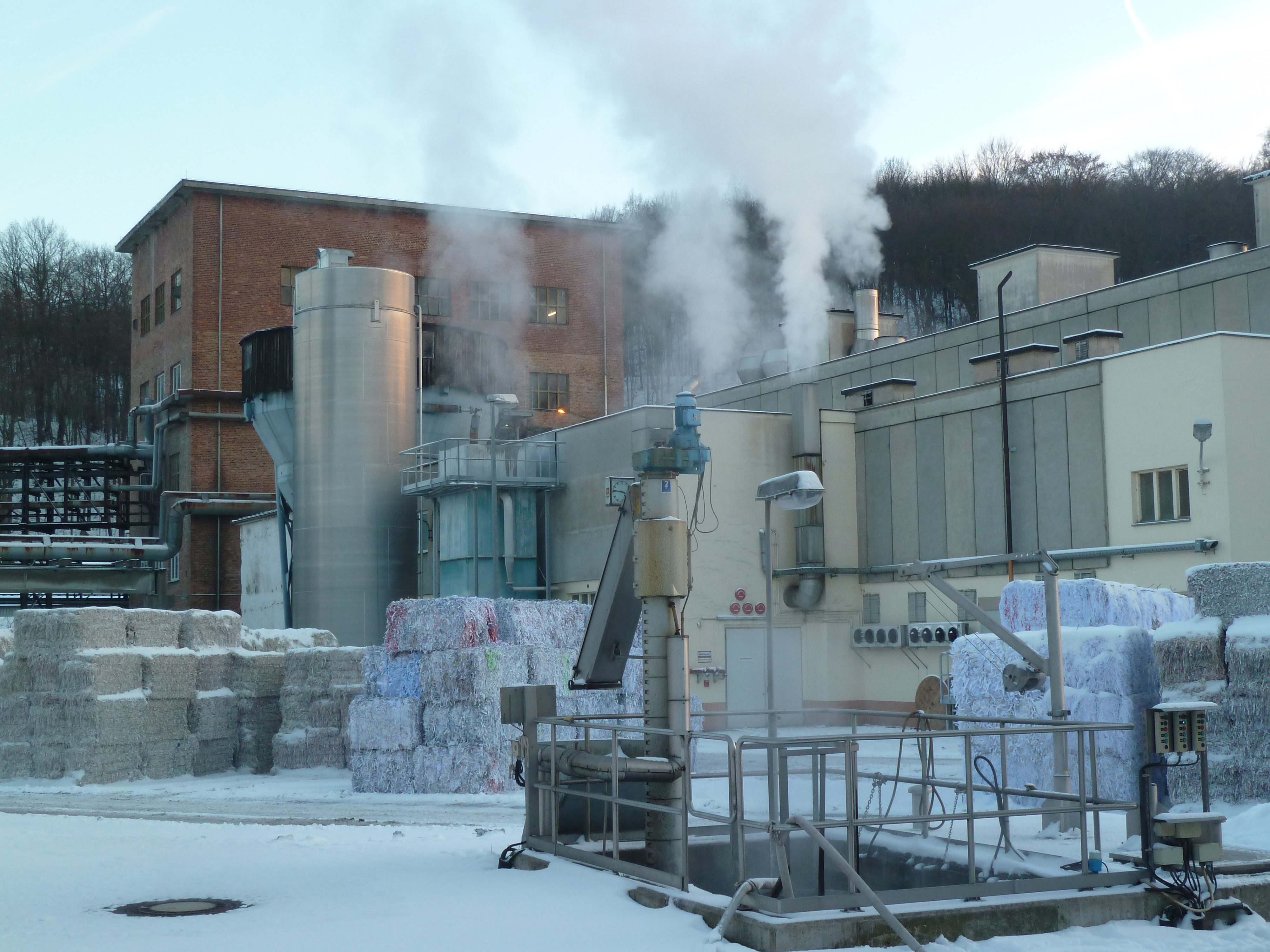 The paper is recycled from used paper by deinking in a flotation plant consisting of several froth flotation cells.